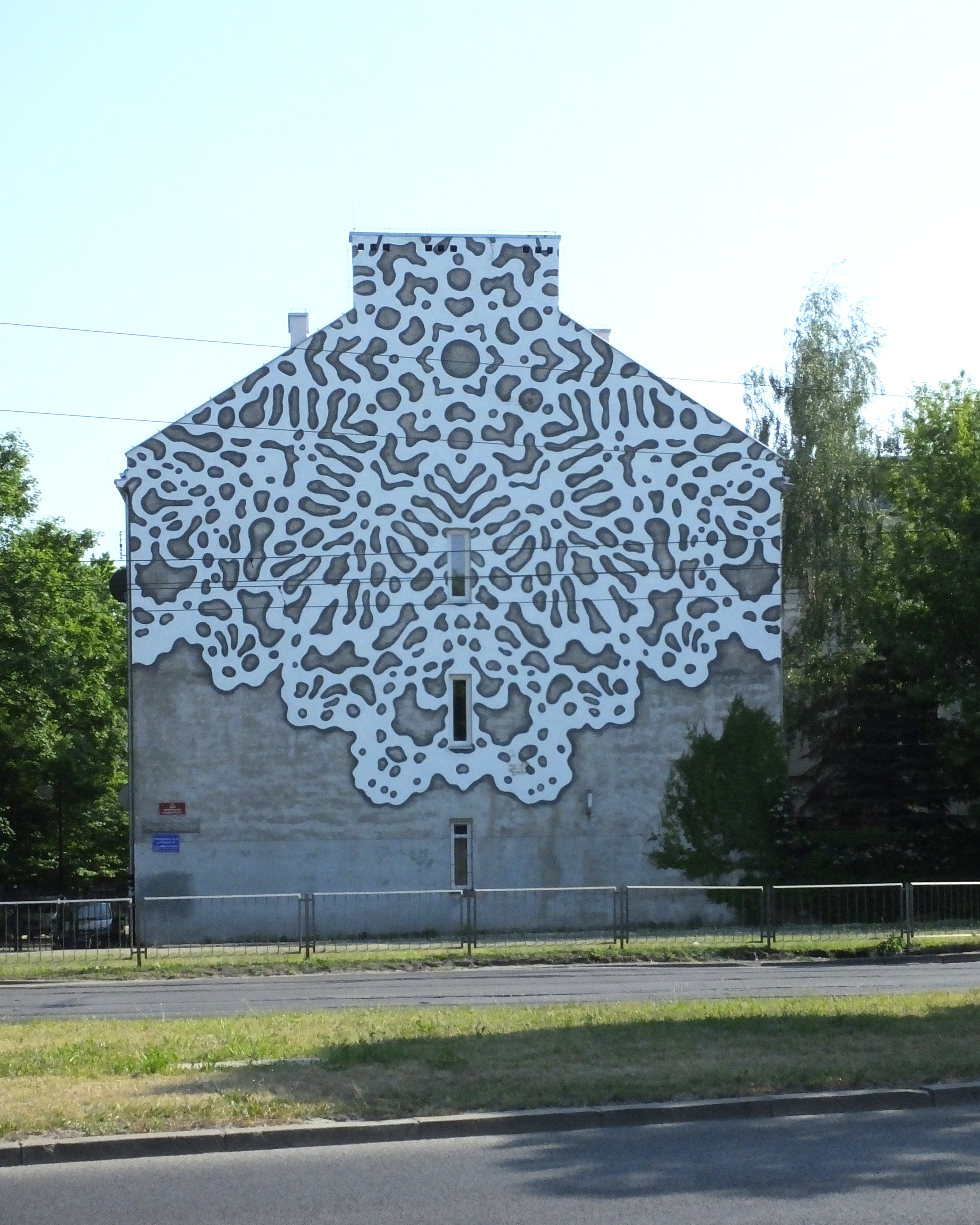 A lace, NeSpoon's mural in Warsaw.